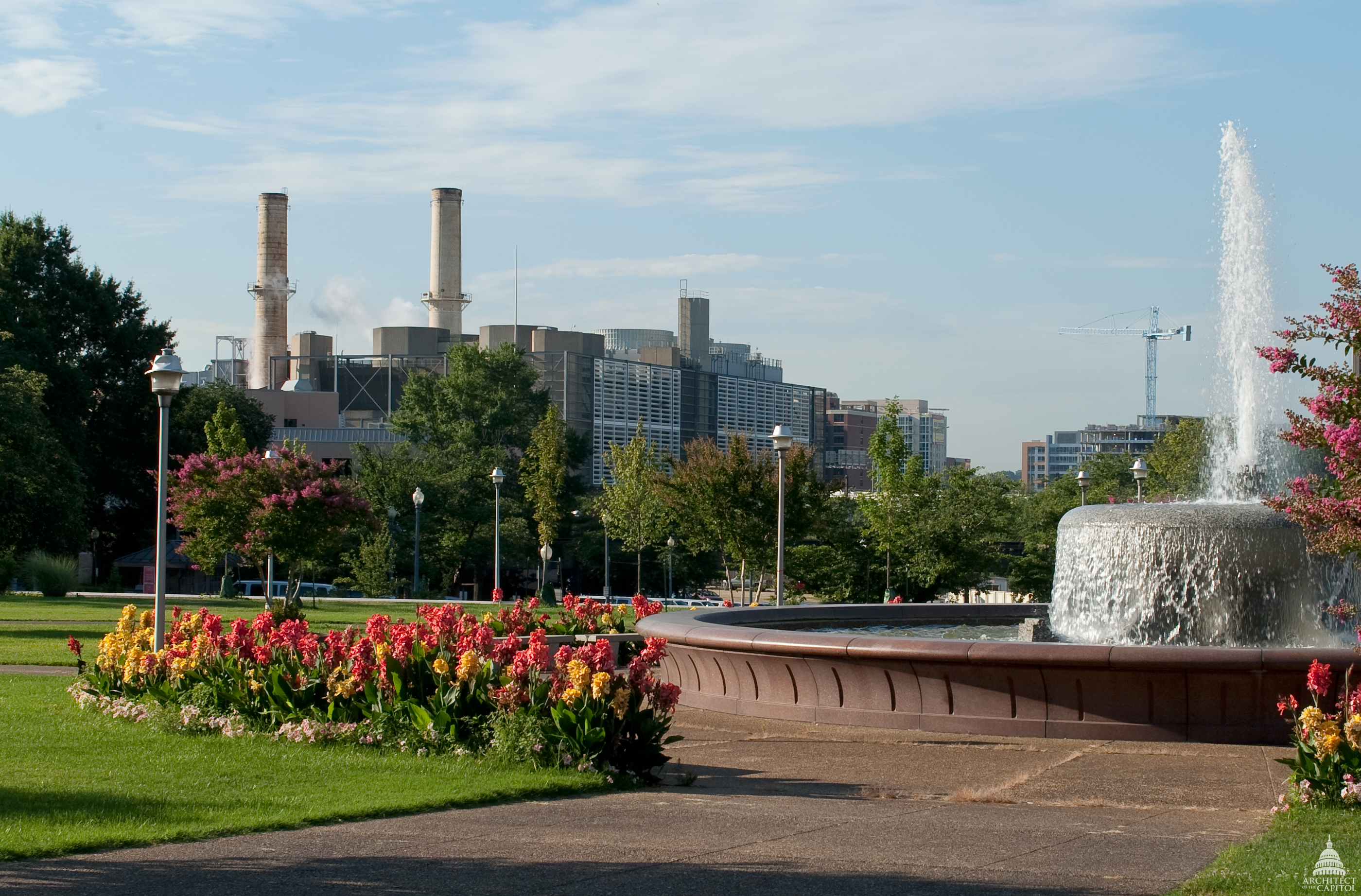 The Capitol Power Plant provides steam and chilled water used to heat and cool buildings throughout the Capitol campus. In December 1910, the plant started operations, generating steam and electricity for the Capitol building. In 1951 it ceased generating electricity. The plant has been enlarged many times to keep up with expansion of congressional offices and corresponding increase in heating and cooling demands of the Capitol campus. This official Architect of the Capitol photograph is being made available for educational, scholarly, news or personal purposes (not advertising or any other commercial use). When any of these images is used the photographic credit line should read “Architect of the Capitol.” These images may not be used in any way that would imply endorsement by the Architect of the Capitol or the United States Congress of a product, service or point of view. For more information visit